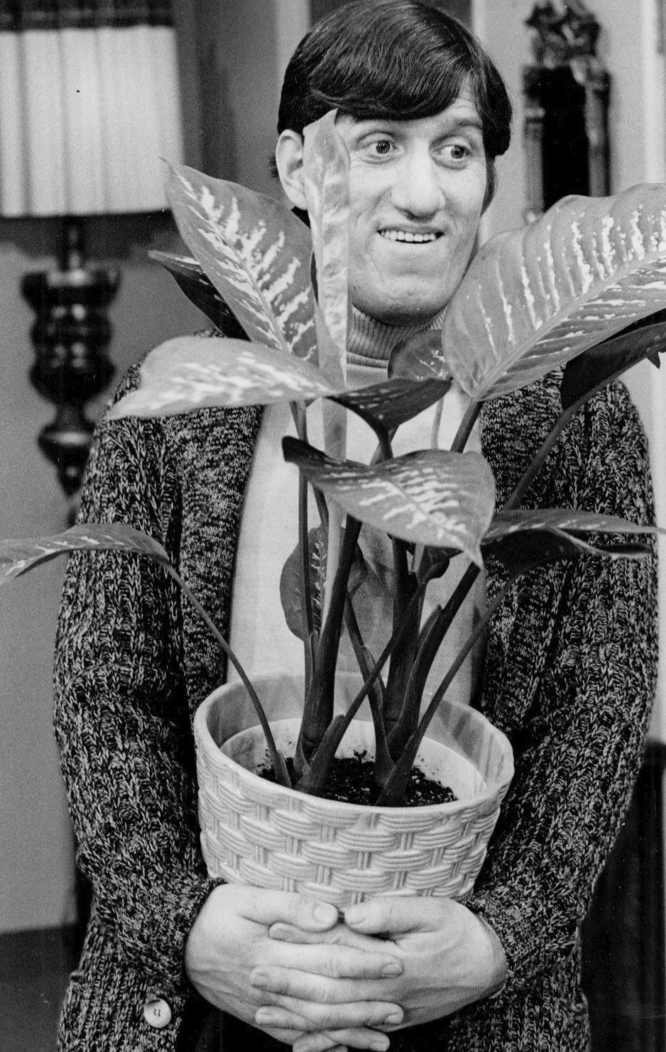 Photo of Paul Benedict as Harry Bentley, neighbor of George and Louise Jefferson. In this photo from The Jeffersons, Harry asks George and Louise to plant-sit for him.